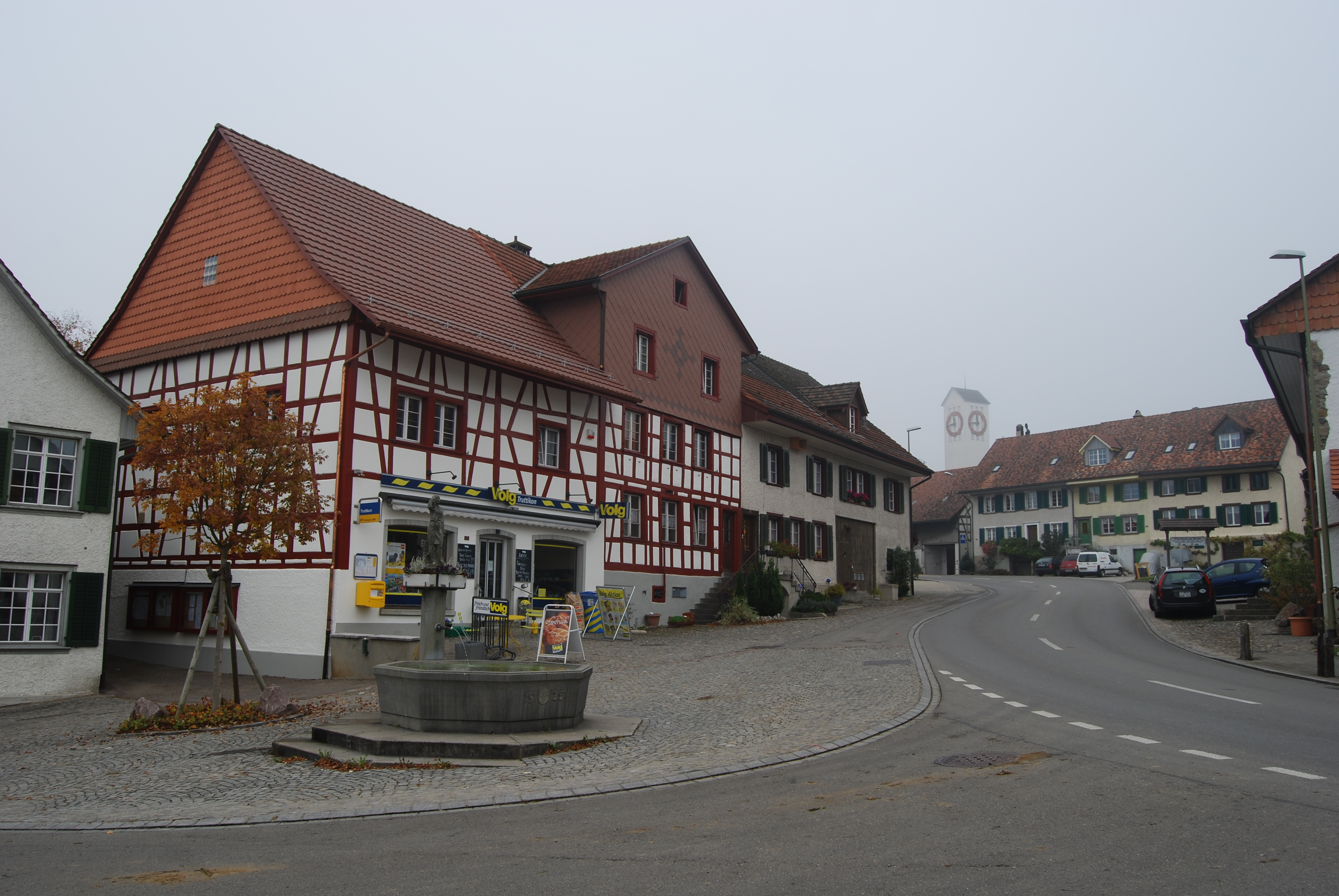 Village fountain and store at Truttikon, canton of Zürich, SwitzerlandEsperanto: Vilaĝa puto kaj vendejo en Truttikon, Kantono Zuriko, Svislando